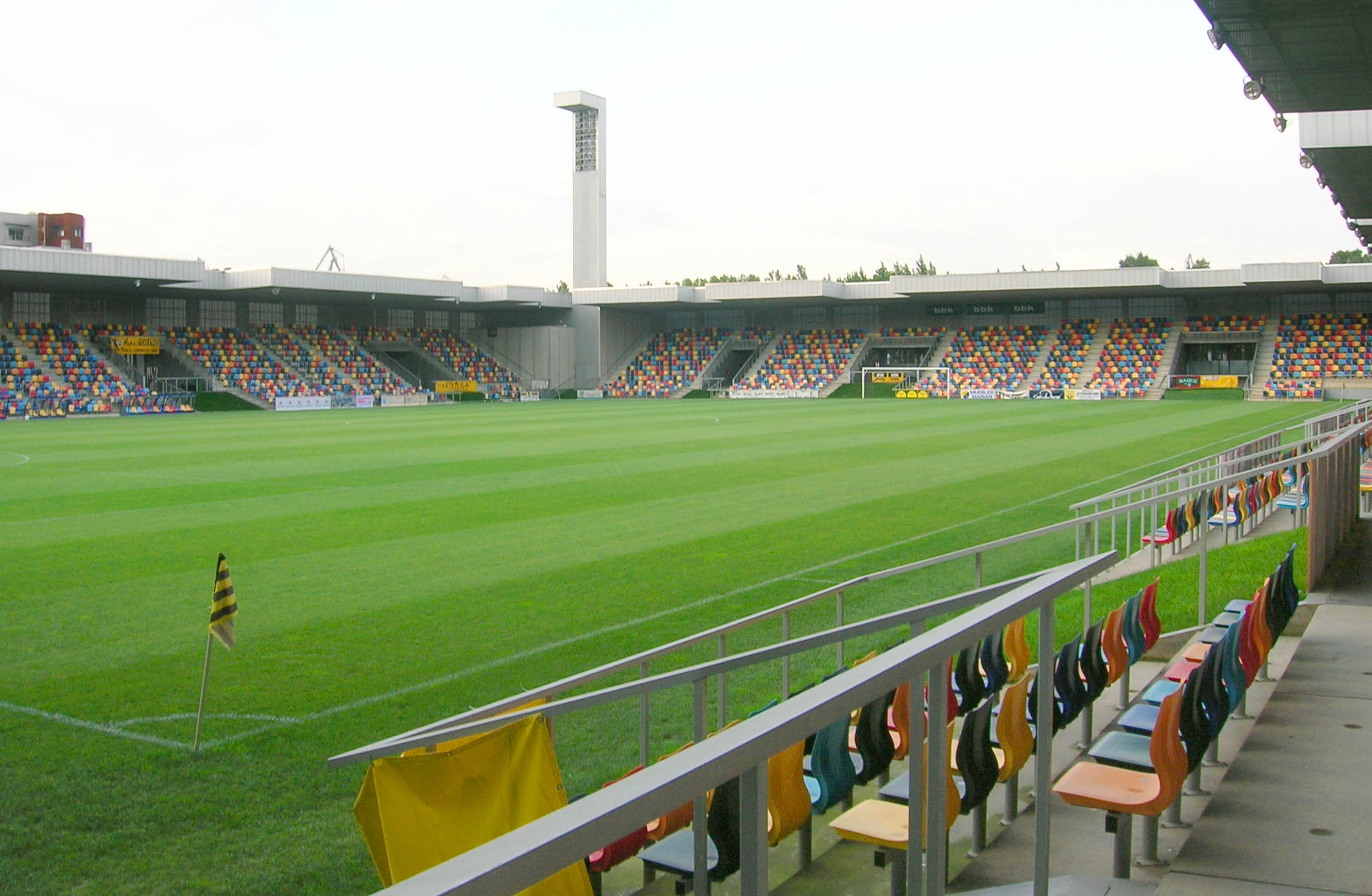 New football field of Lasesarre (1999-2003), in Barakaldo (Spain), designed by architect Eduardo Arroyo. The flag in the corner shows the black and gold colours of Barakaldo Club de Fútbol. The building up to the left belongs to the Guardia Civil house and quarters.